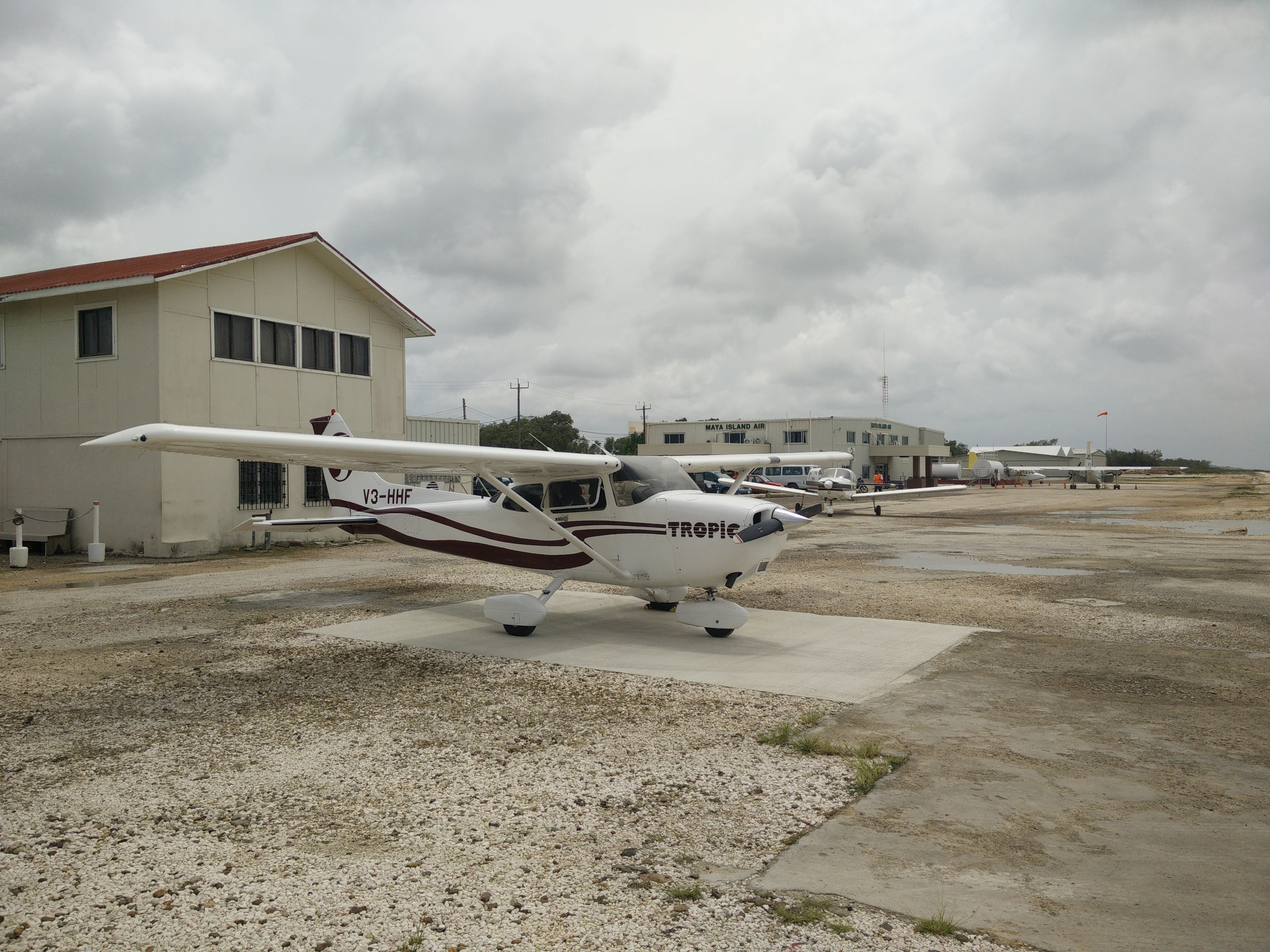 Tropic Air Cessna Skyhawk 172 V3-HHF @ Belize City Municipal Airport